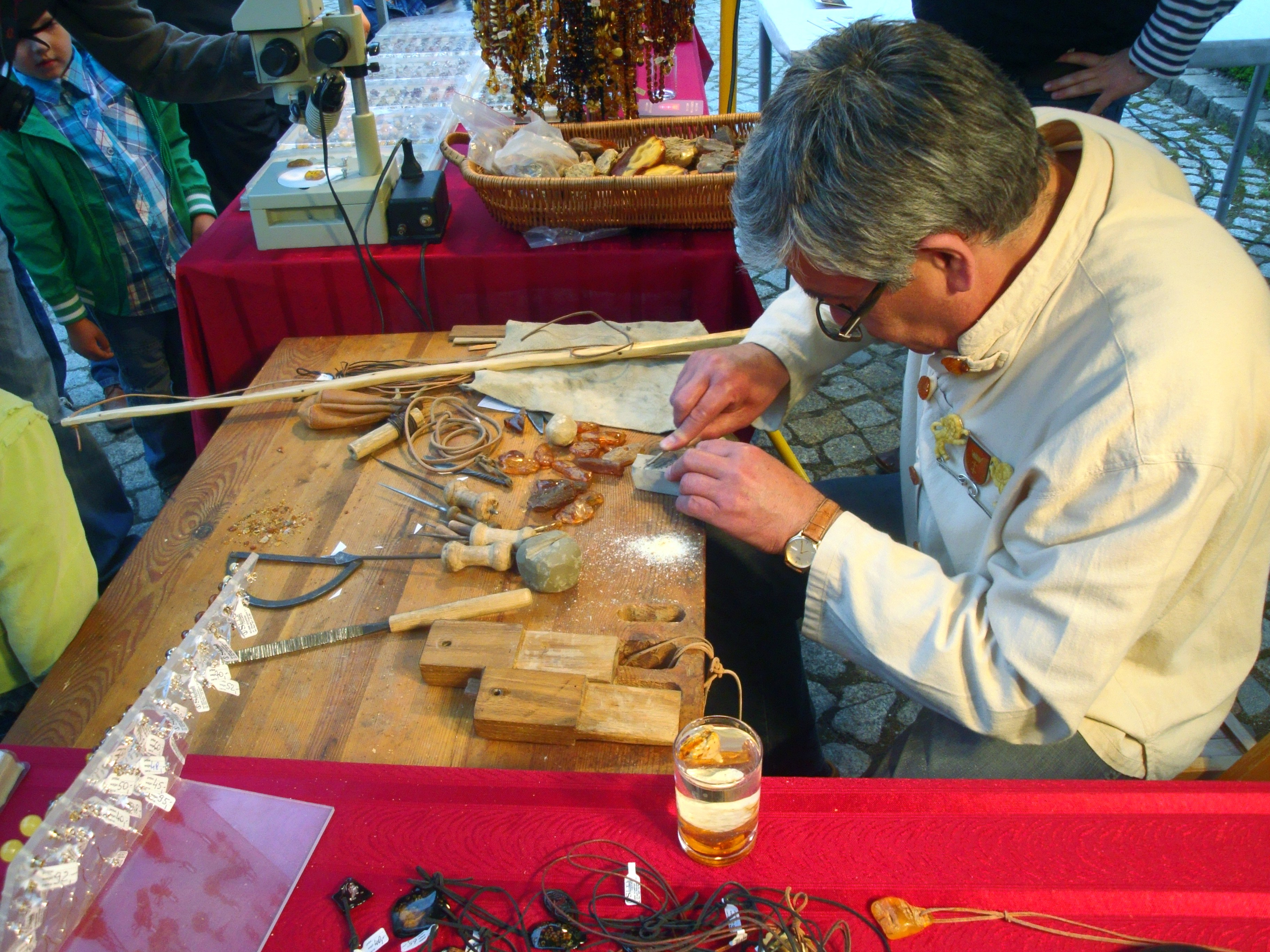 Prcessing of amber demonstration during Night of Museums 2011 in Grudziądz, Poland